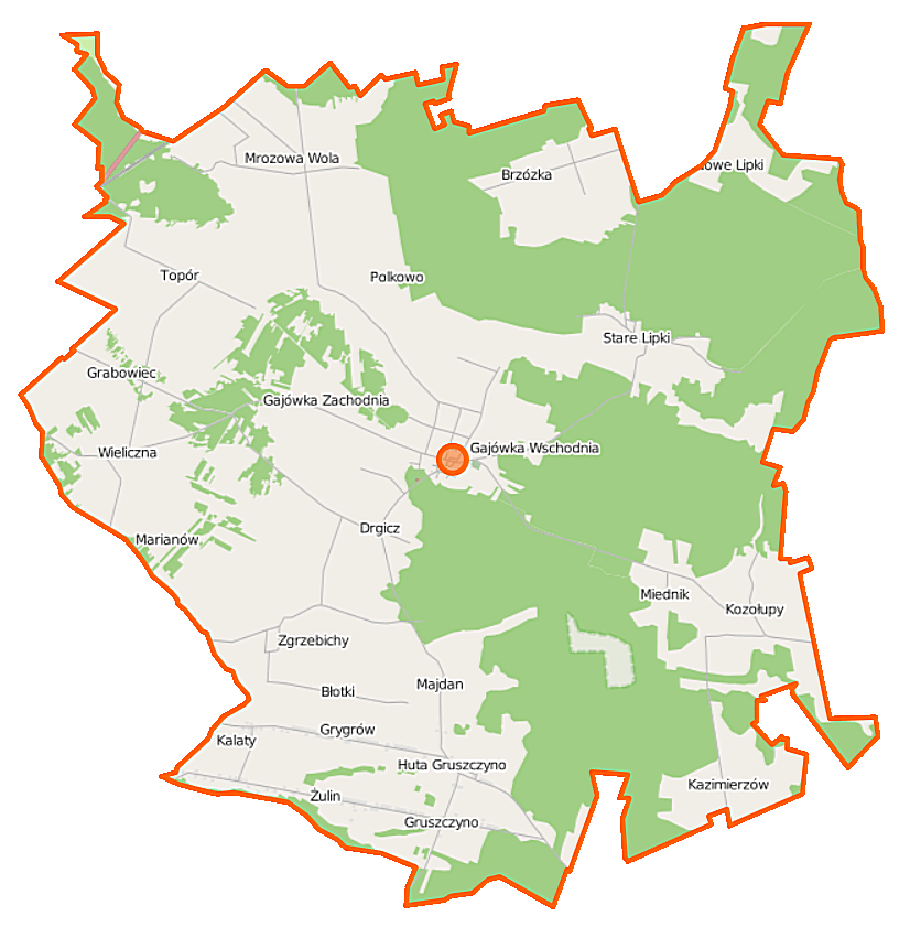 Map of Gmina Stoczek, Poland This map of Stoczek (gmina) was created from OpenStreetMap project data, collected by the community. This map may be incomplete, and may contain errors. Don't rely solely on it for navigation. Border coordinates52.613721.7886←↕→22.015252.4730